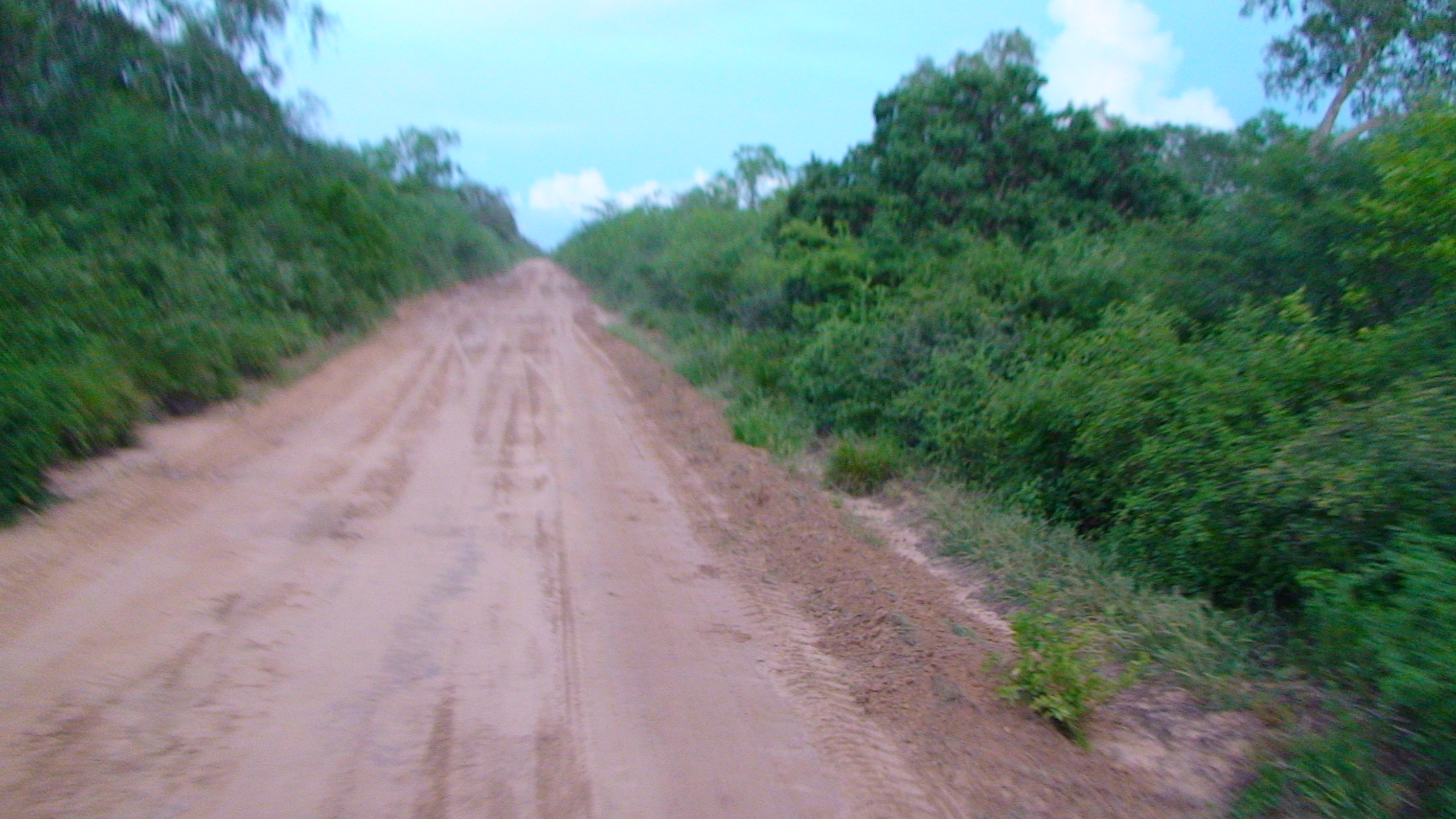 PICADA 108 KM 634 TRANS CHACO